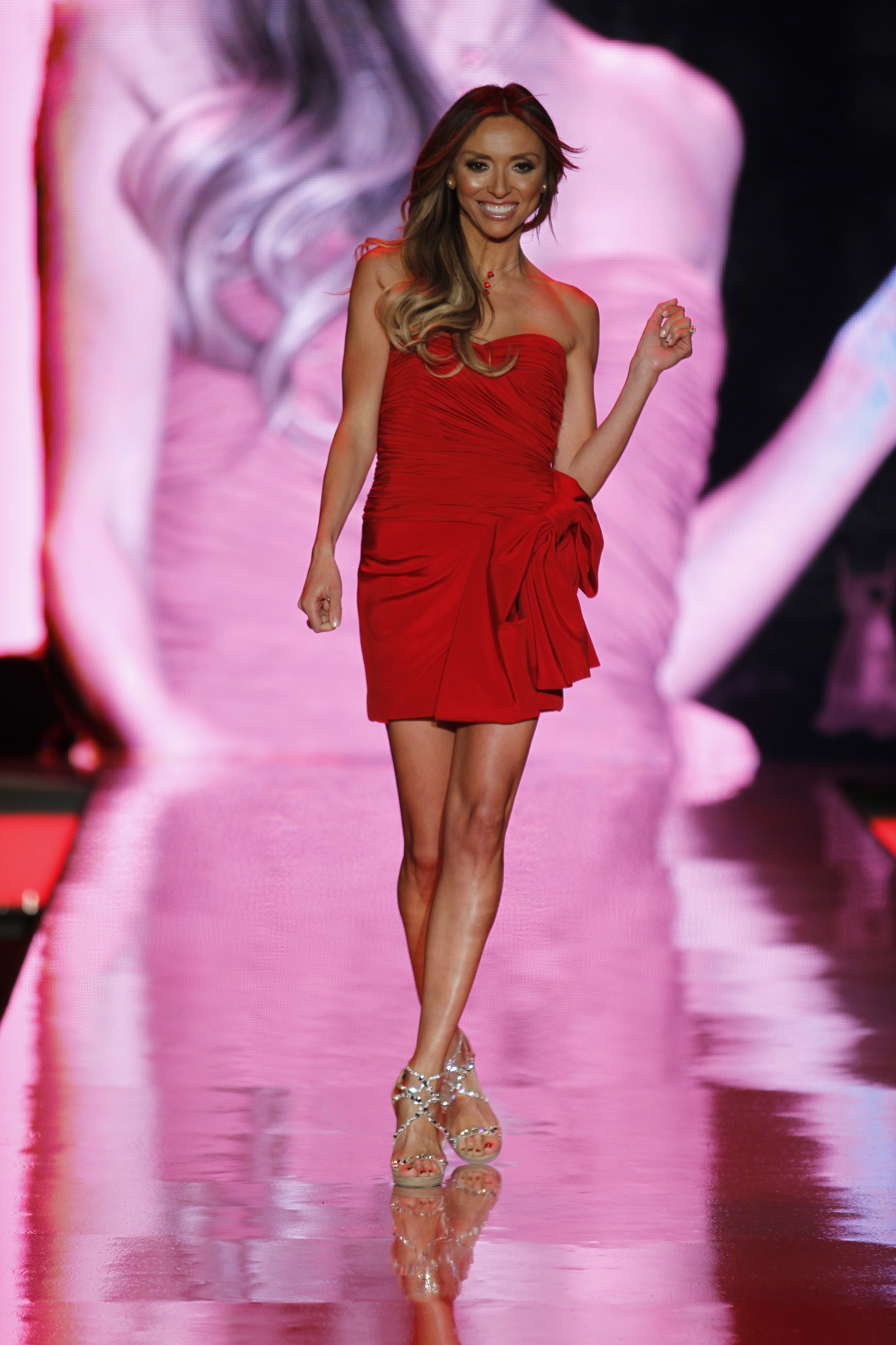 Giuliana Rancic in Notte by Marchesa